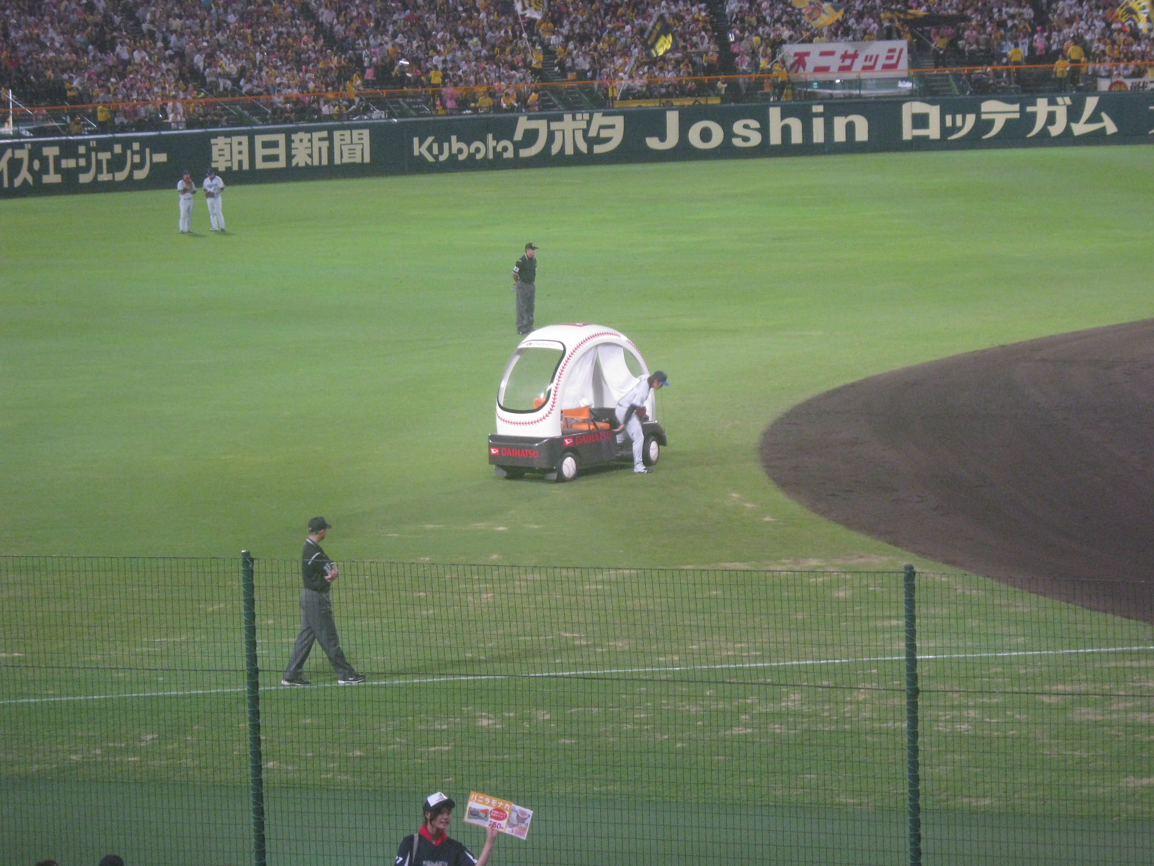 The car starts in the bullpen and drives up to the field for pitching changes. [1]